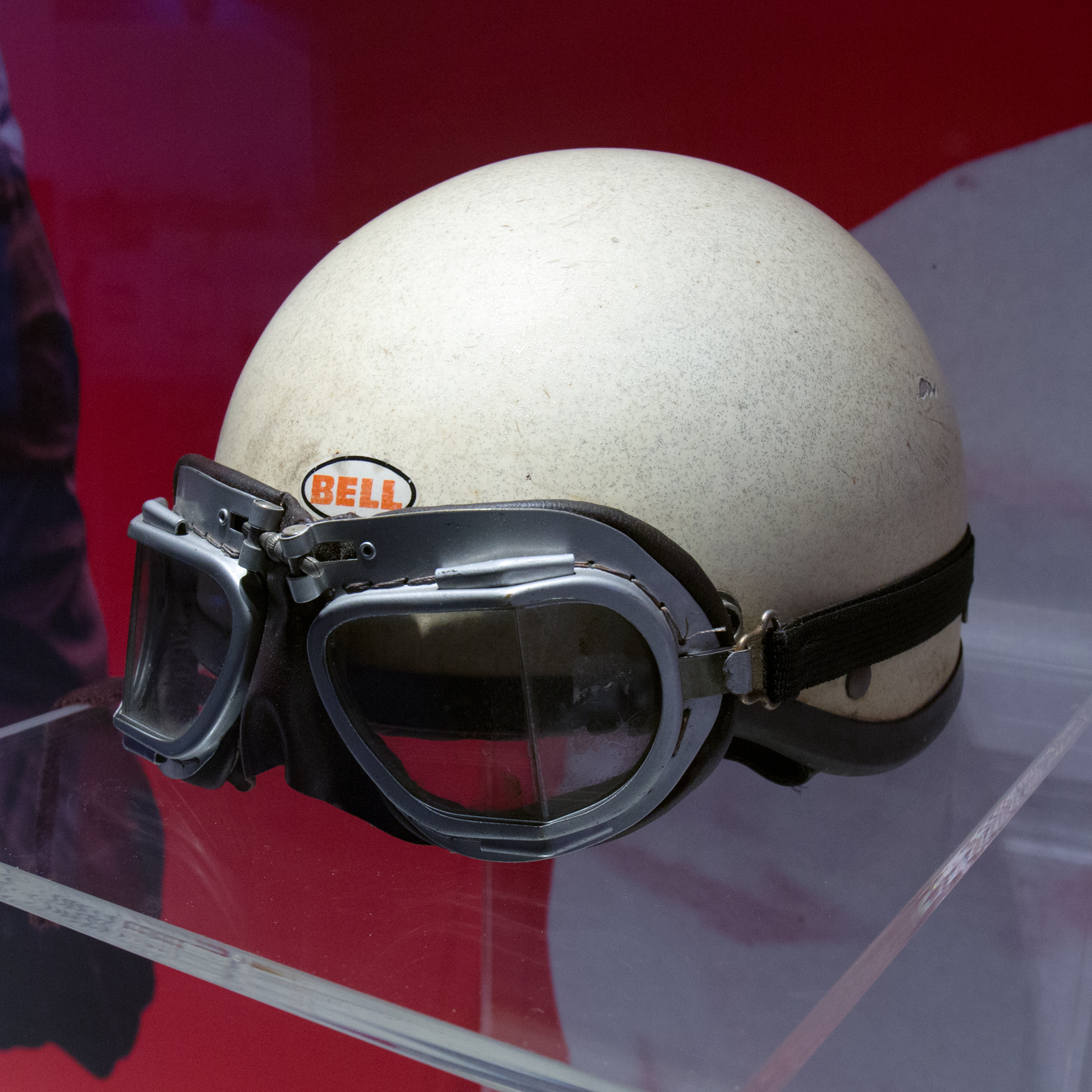 Museo Ferrari: Helmet and racing goggles of Phil Hill, in the late 1950s.